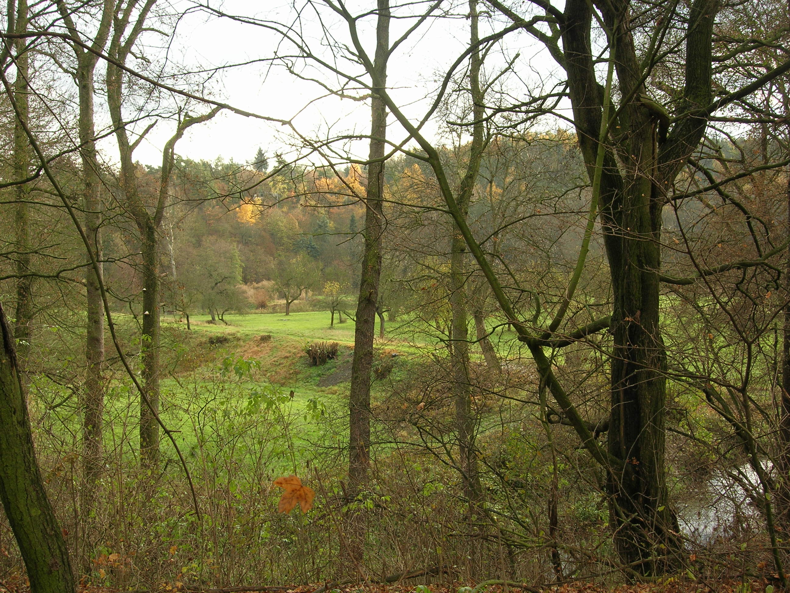 Nature reserve Údolí Únětického potoka near Suchdol, part of Prague, Czech Republic